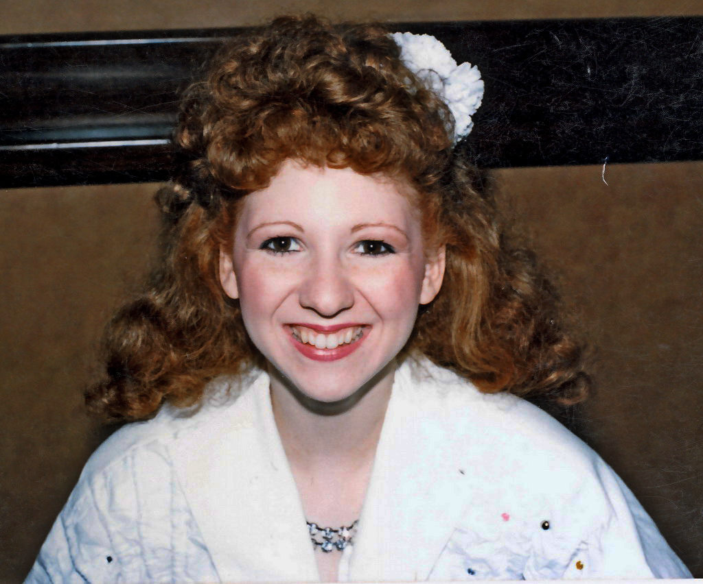 This is a picture I [Joe Siegler/Dopefish] took myself of Bonnie Langford back in September of 1986 at the "Whovent 86" convention tour.